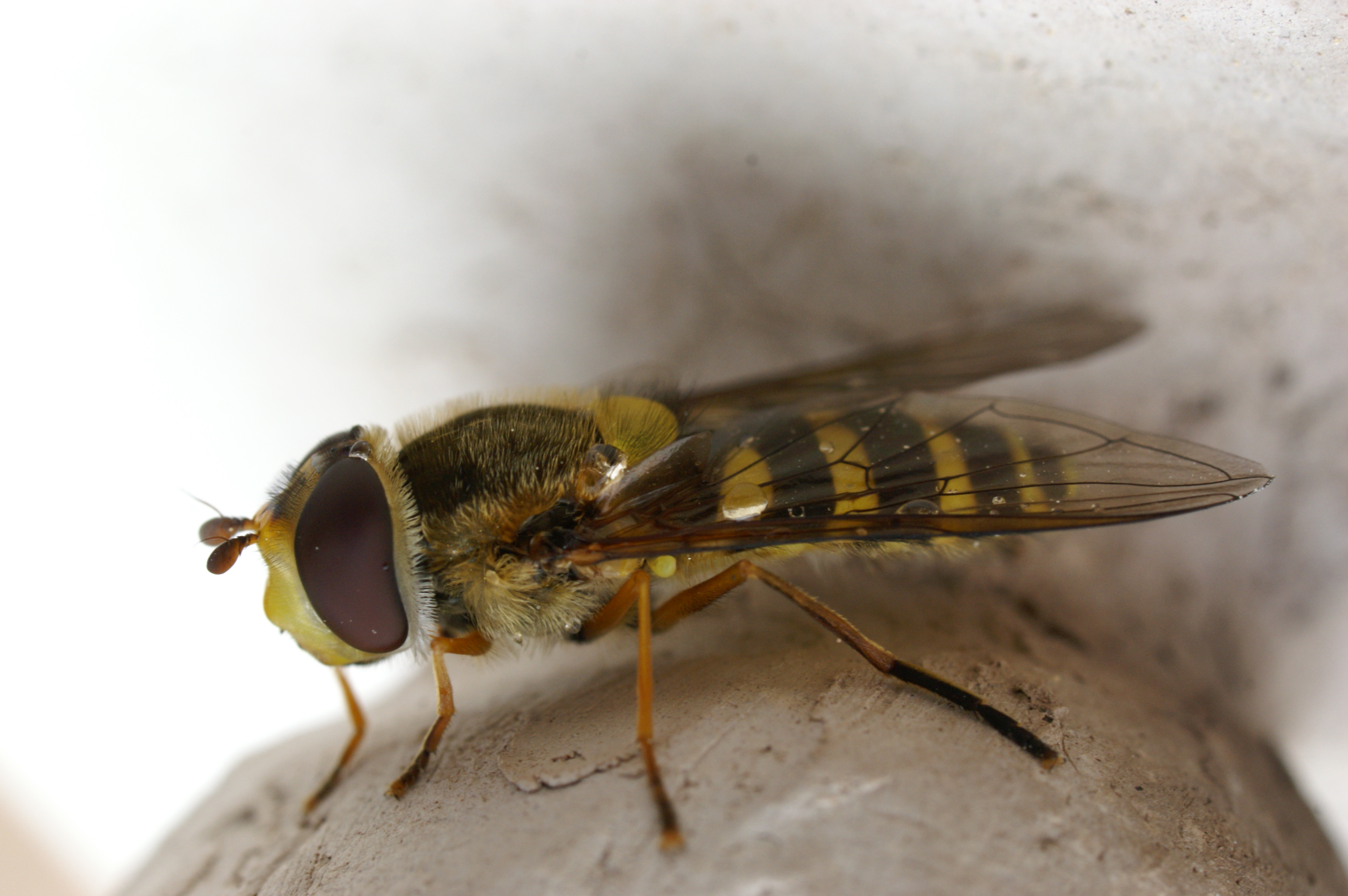 Hoverfly.